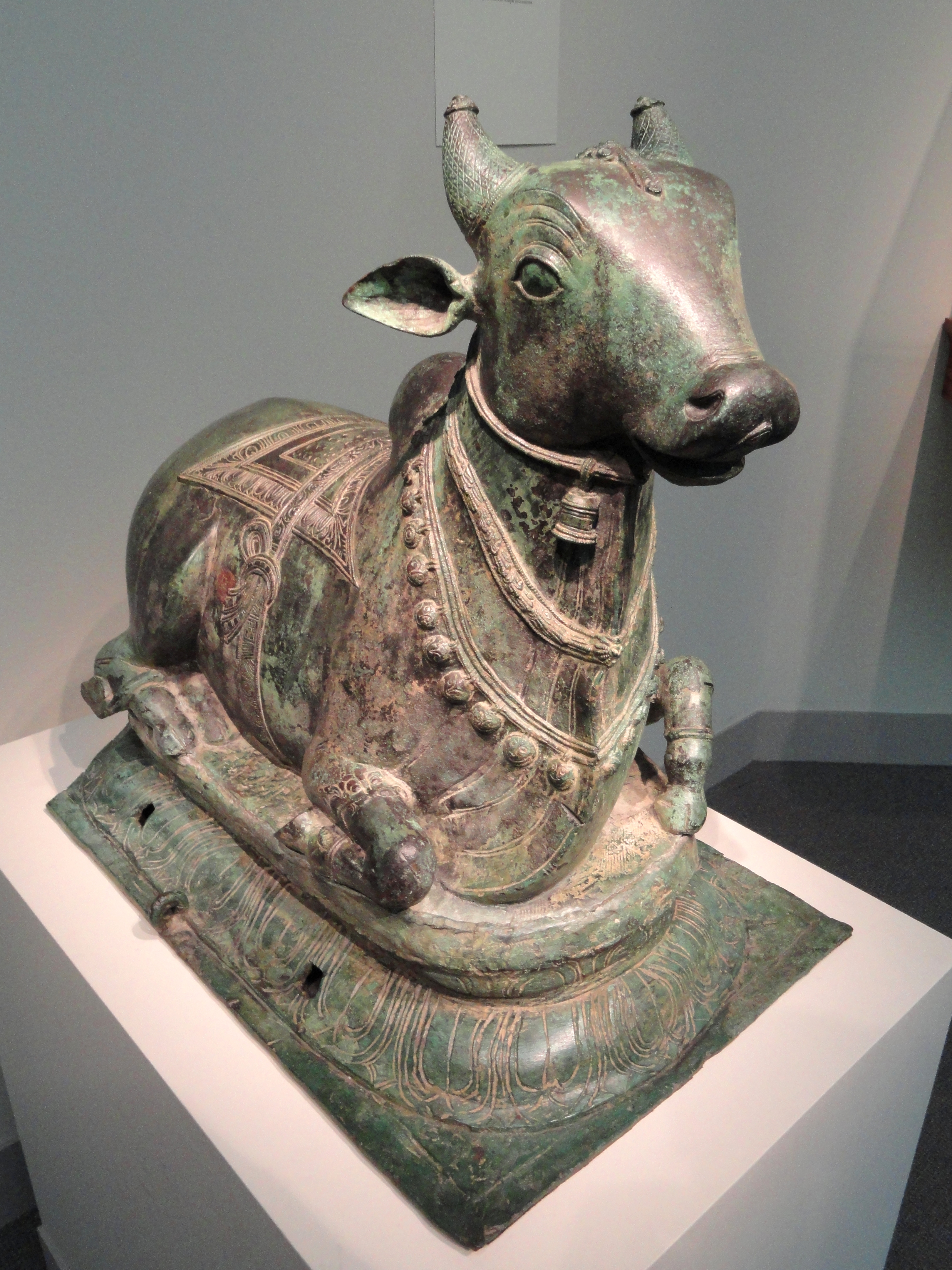 Exhibit in the Freer Gallery of Art, Washington, DC, USA. This artwork is old enough so that it is in the public domain.